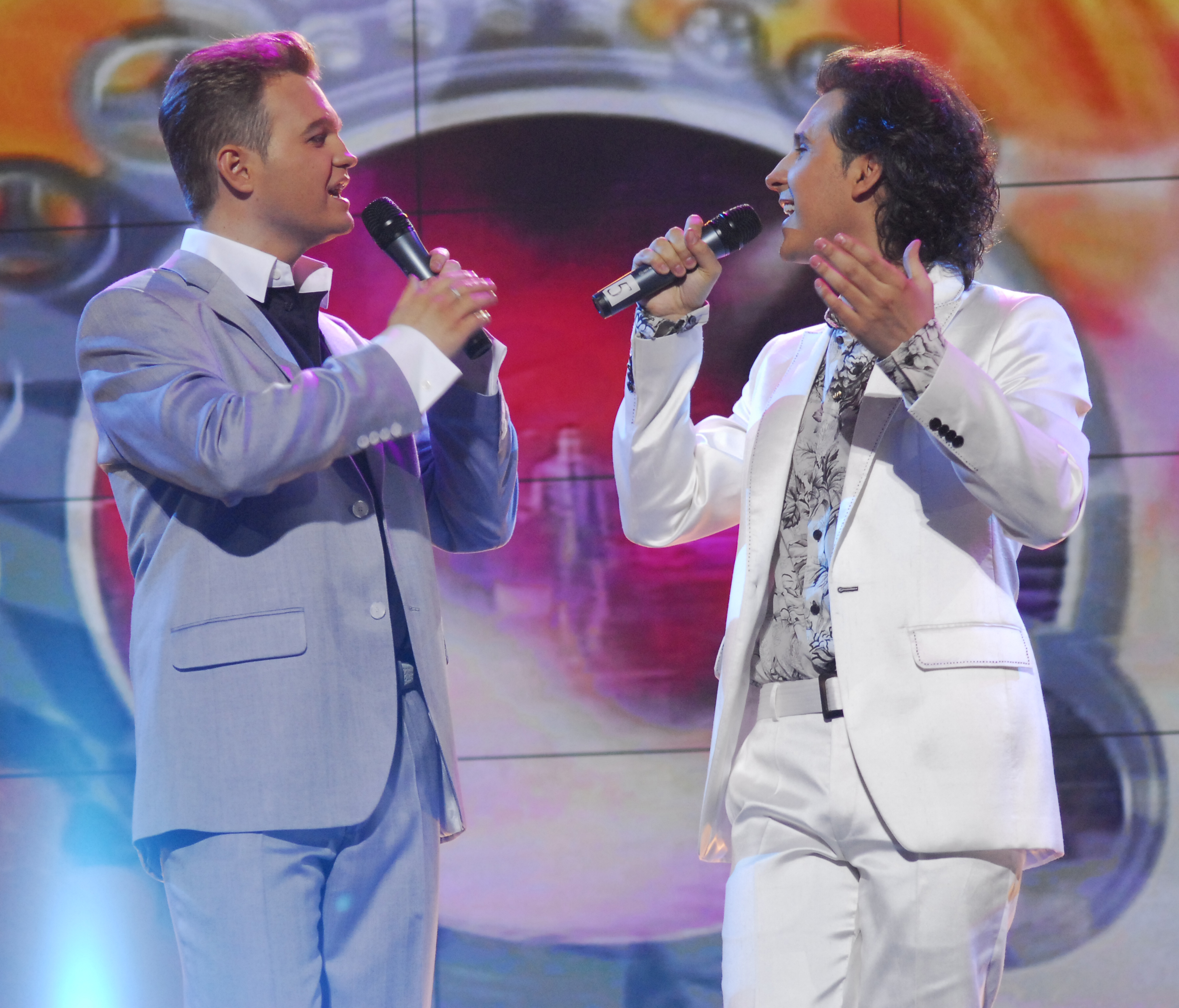 Yaremchuk brothers, Dmytro and Nazariy Yaremchuk, Ukrainian singer of pop music, Honored Artist of Ukraine